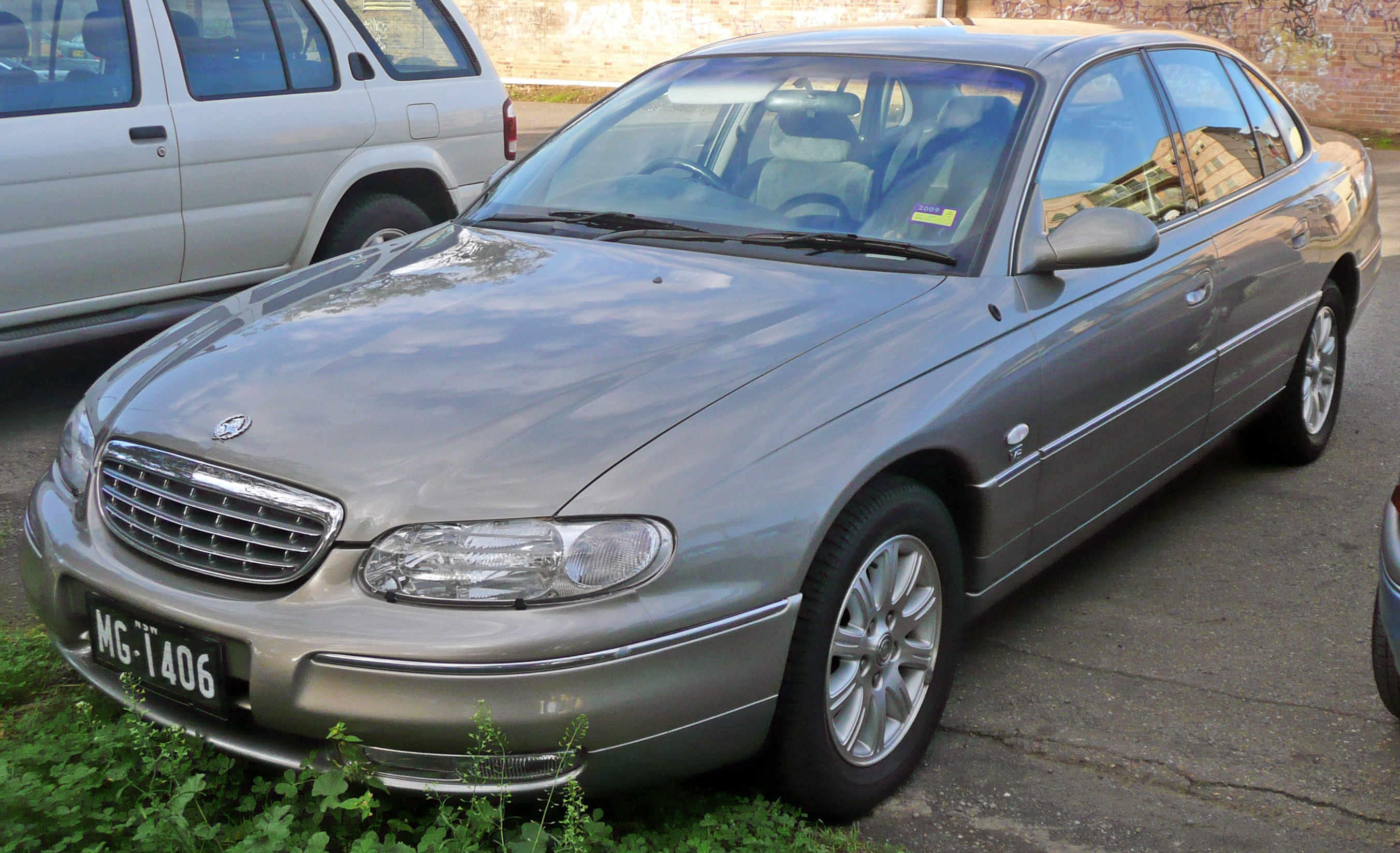 1999–2001 Holden WH Statesman sedan. Photographed in Sutherland, New South Wales, Australia.